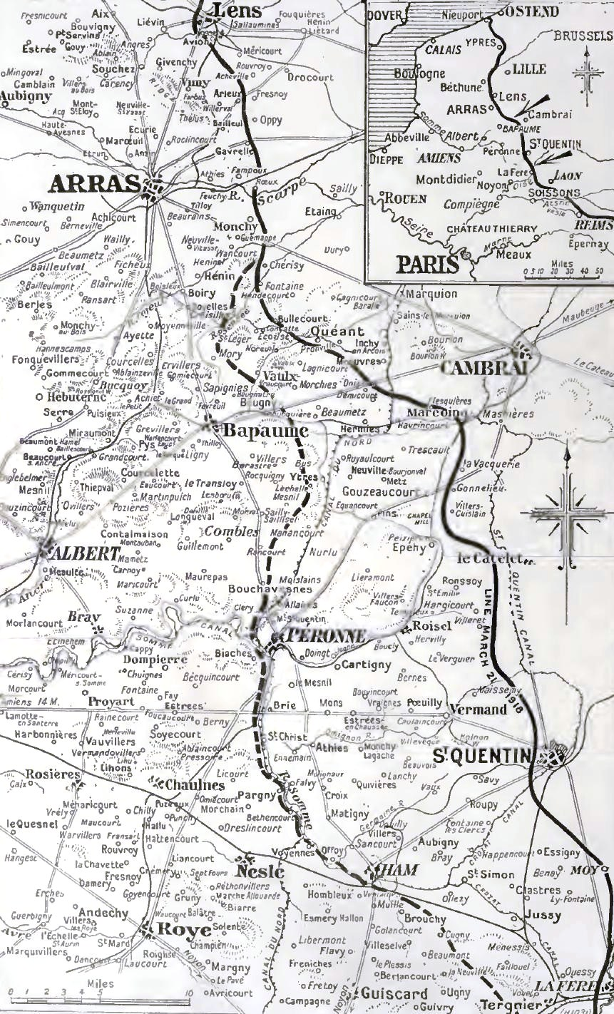 Map, German advance 21-23 March 1918